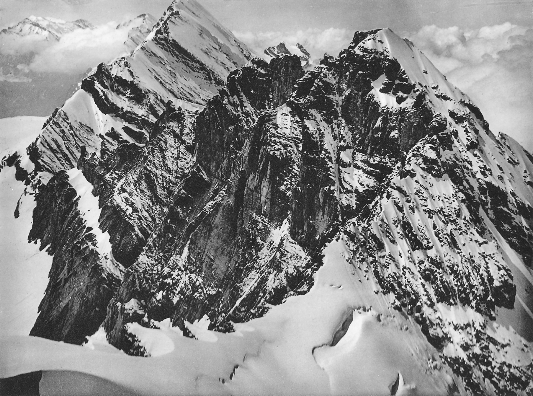 Mountains in the Swiss Alps (from left to right): Morgenhorn (3627m, with the summit cut off), Blüemlisalpstock, and Gspaltenhorn (3436m). View from a balloon at about 3300m above sea level.